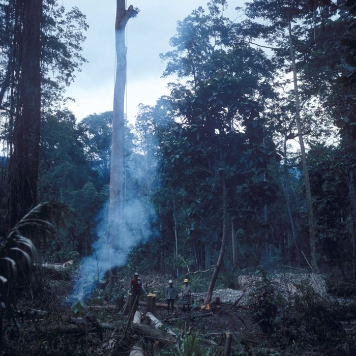 Forest cutting and burning at Sopu Valley to create agricultural land